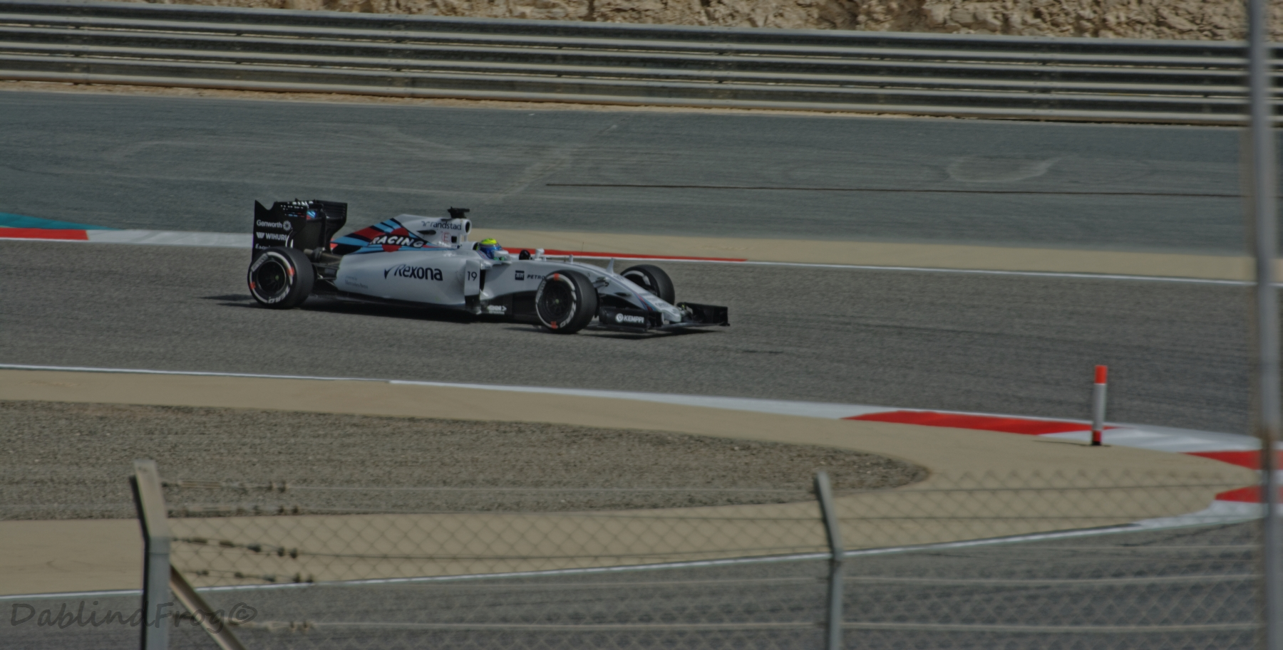 Felipe Massa at the 2015 Bahrain Grand Prix